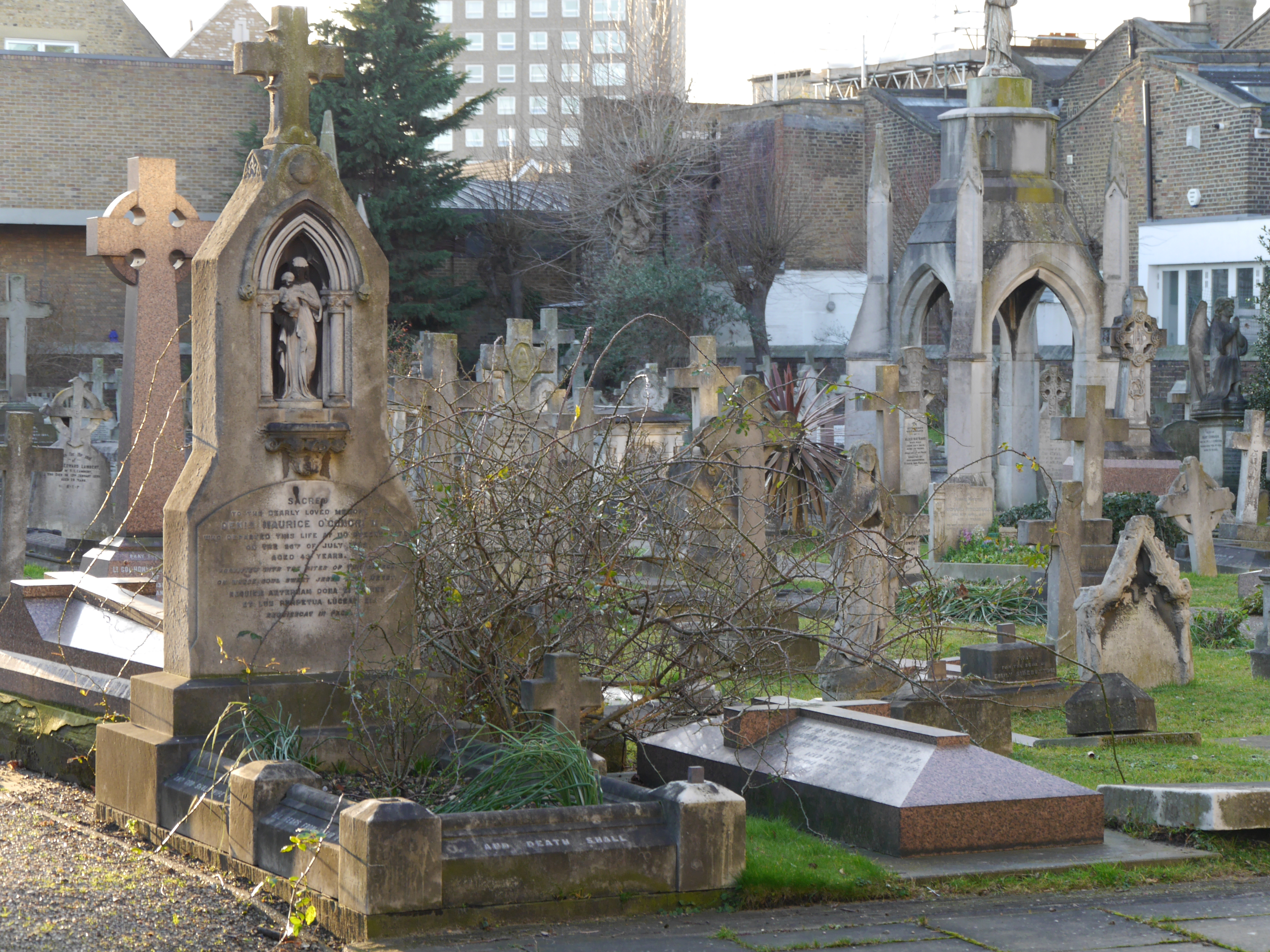 St Thomas of Canterbury, Fulham, February 2015